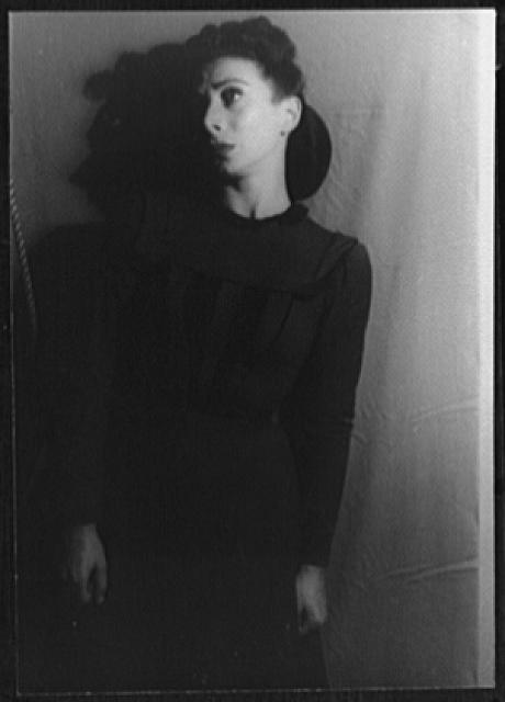 Title: Portrait of Nora Kaye, in Fall River Legend Abstract/medium: 1 photographic print : gelatin silver.